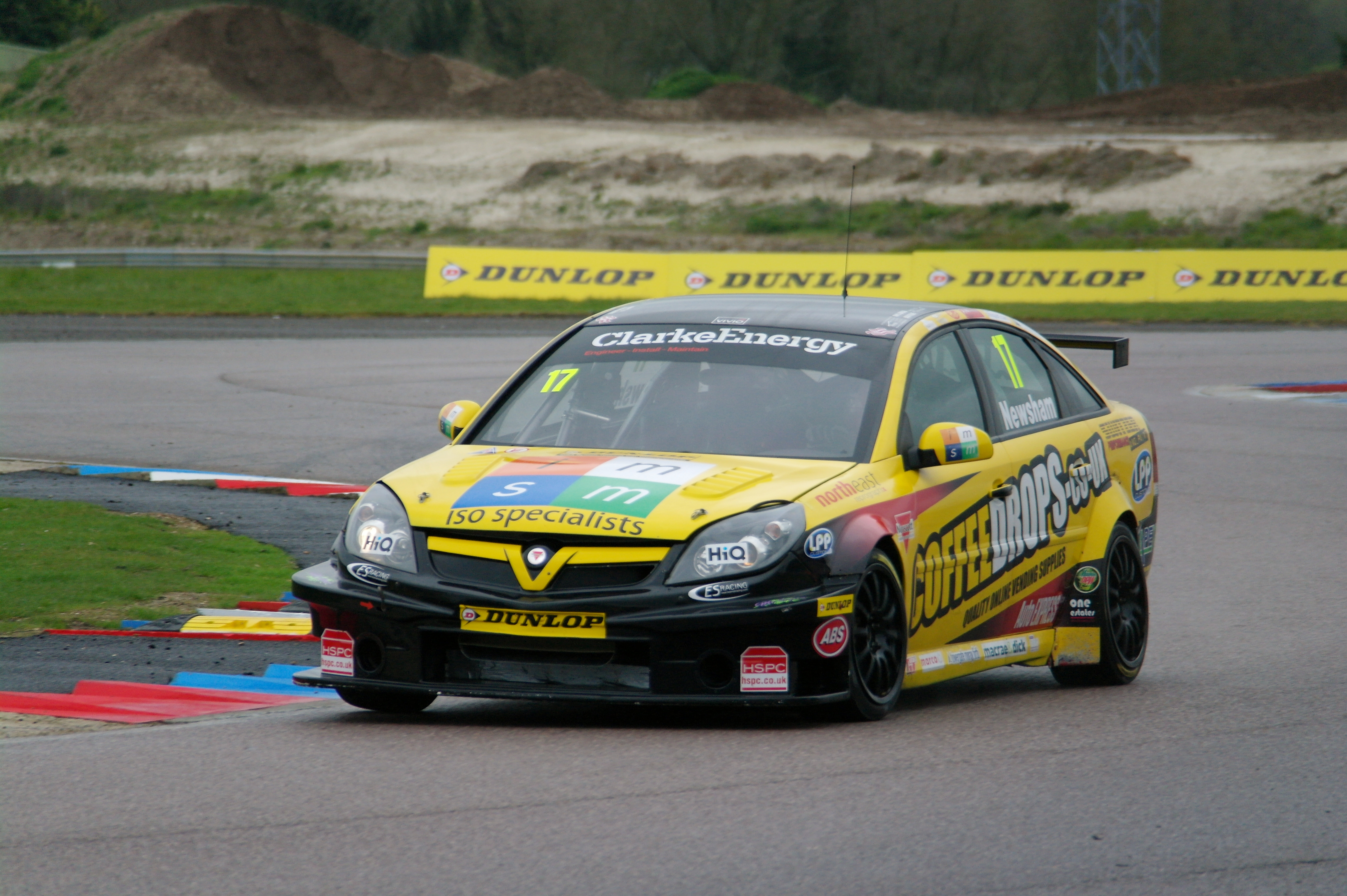 Dave Newsham driving for Team ES Racing in Free Practice 2 at Thruxton in the 2012 British Touring Car Championship season.